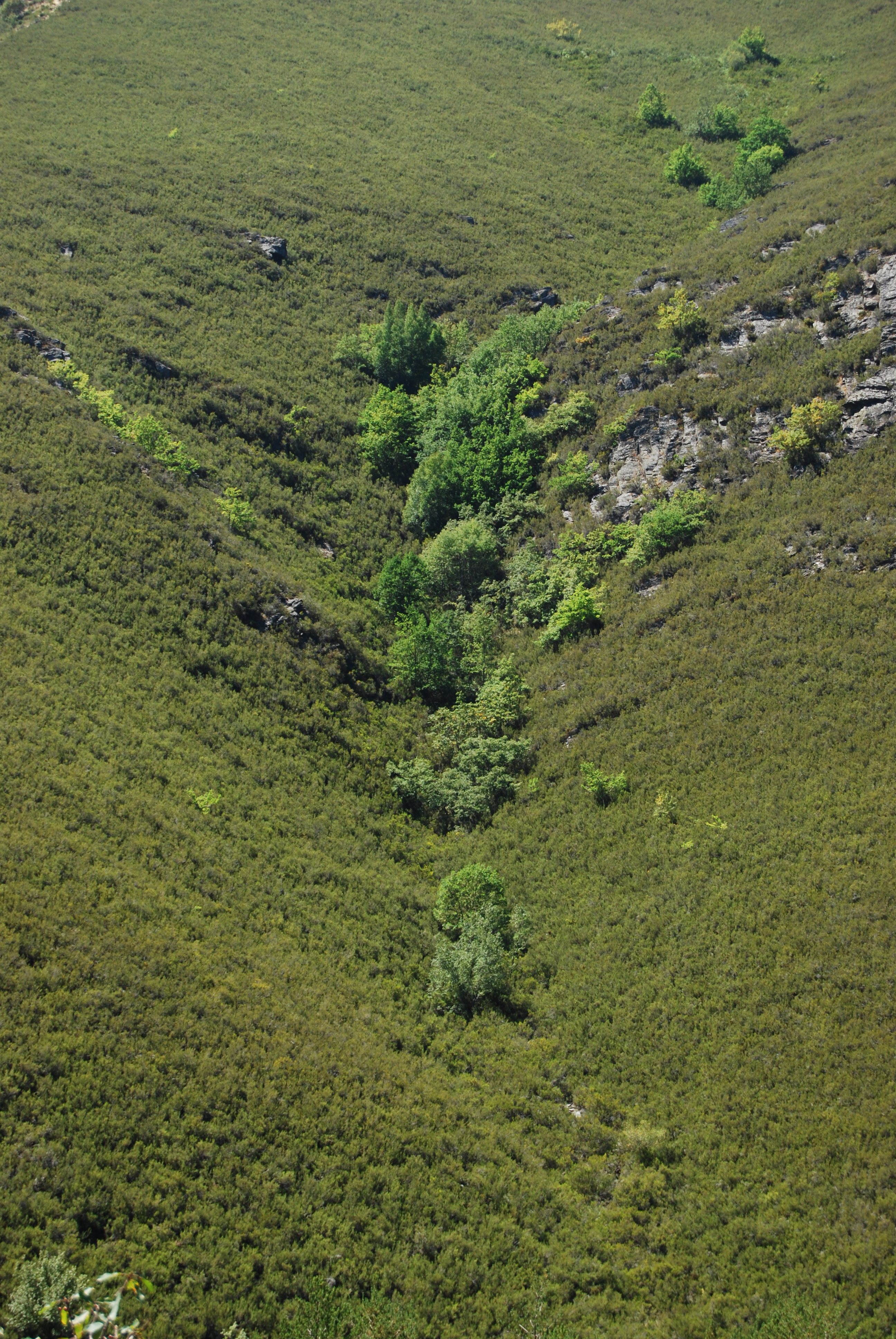 Parque natural do Invernadeiro.